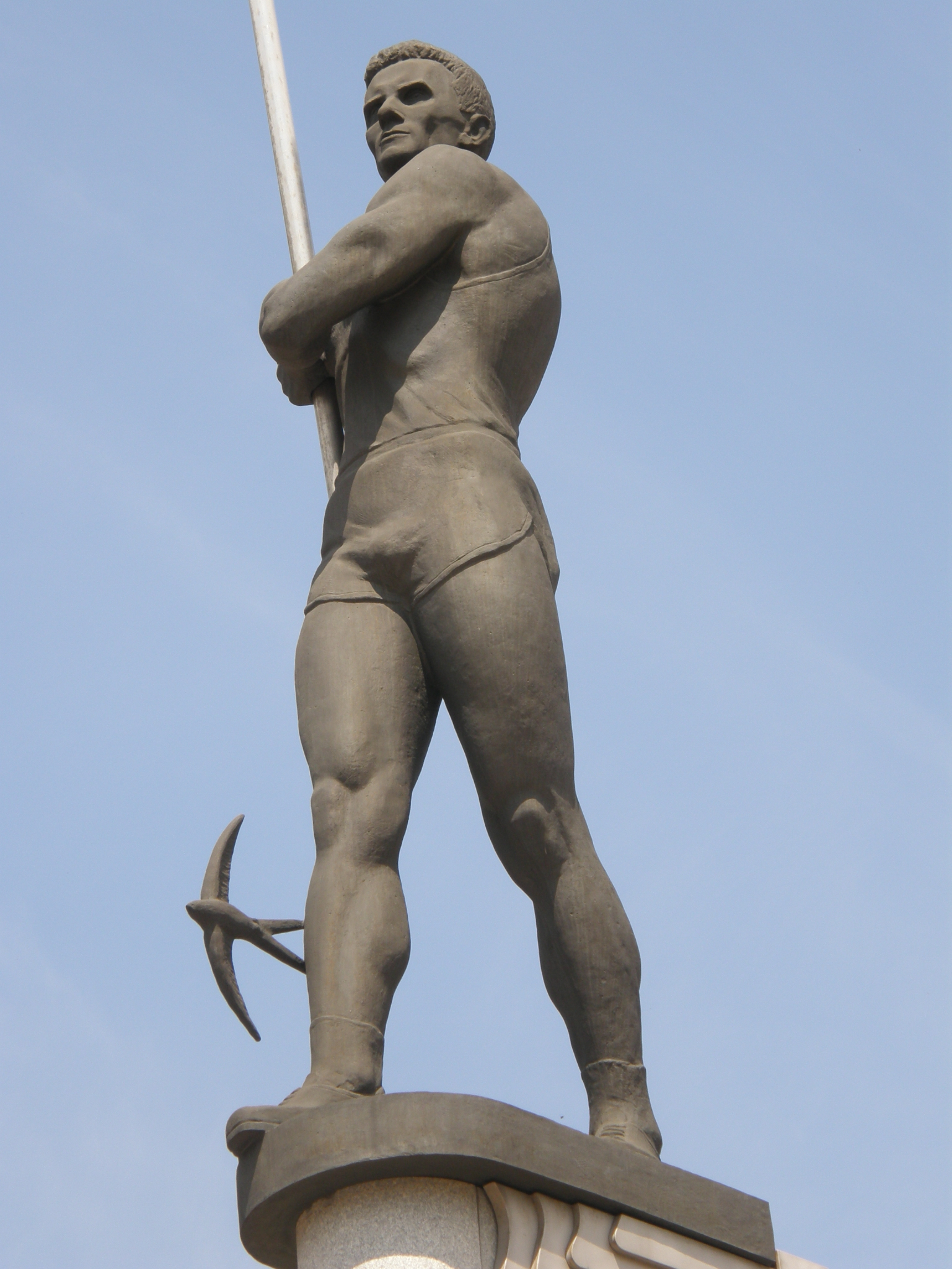 RSC Olimpiyskyi